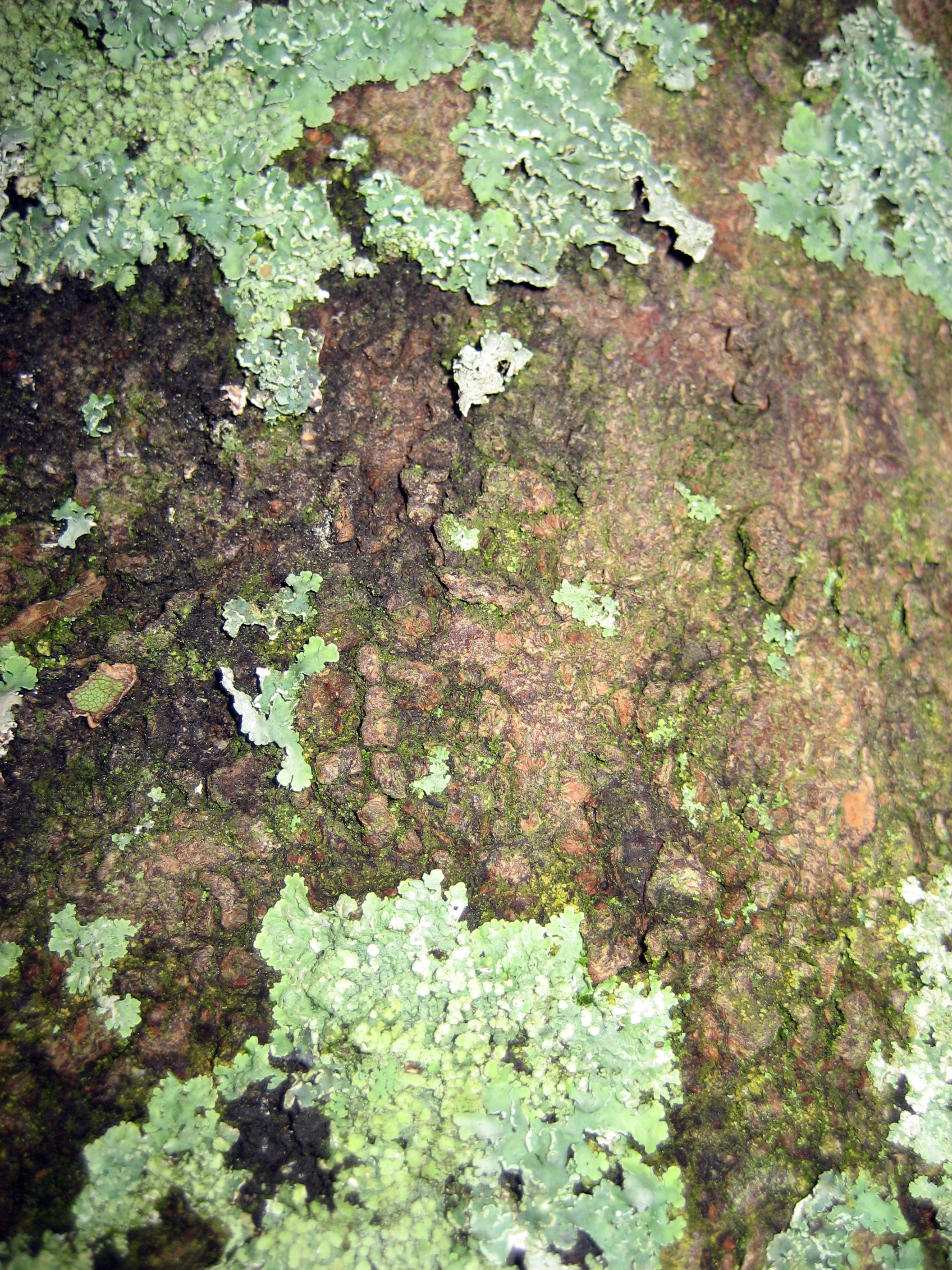 Mangeao, Litsea calicaris. Lichens often grow on the dark-brown bark.